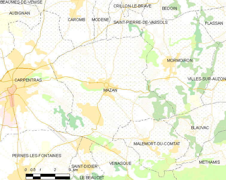 Map of French municipality Mazan